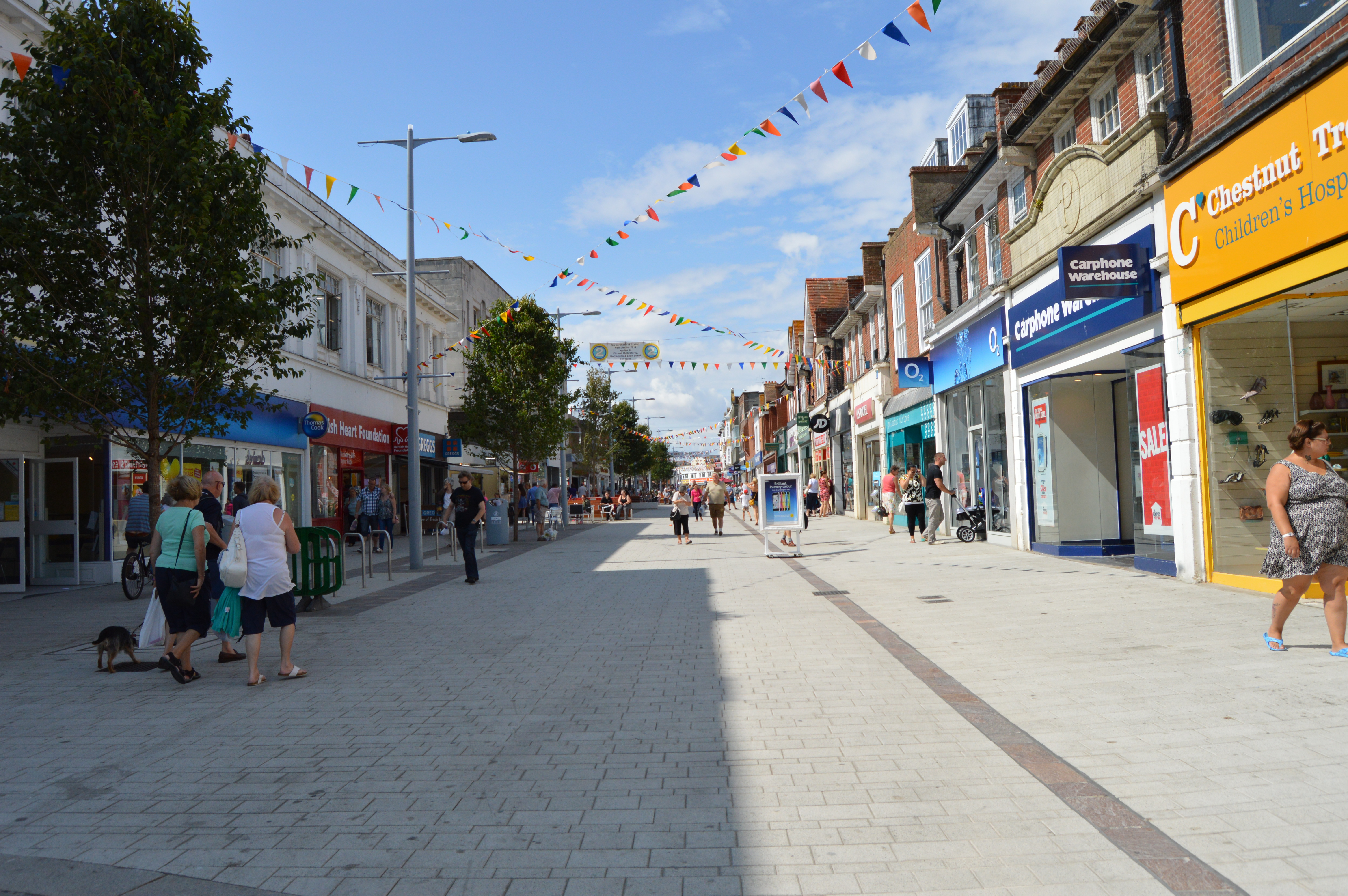 Bognor London Road Precinct